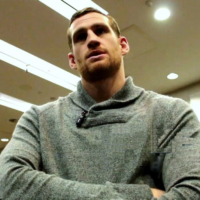 David Price, a heavyweight boxer from England.